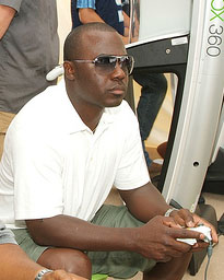 Marshall Faulk ex-running back.